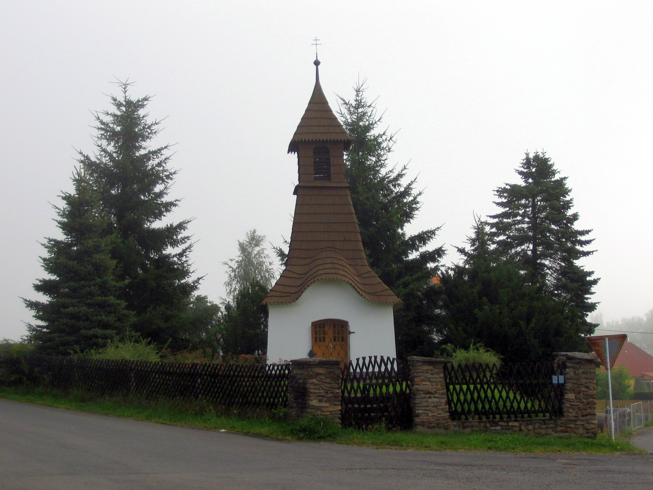 Saint Wenceslaus chapel in Dražovice, Klatovy District, Czech Republic